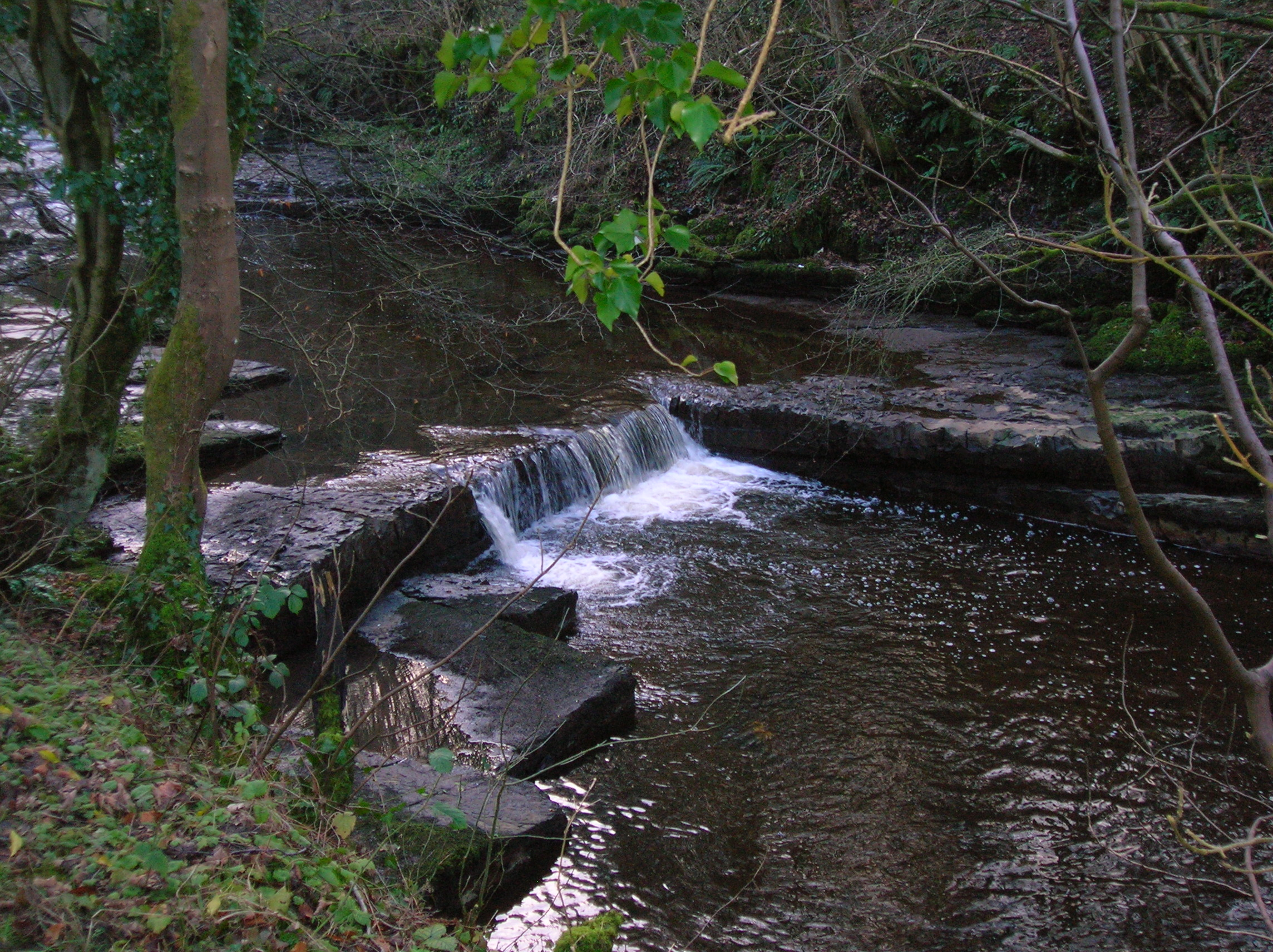 The Caaf Water in Linn Glen, Dalry, North Ayrshire, Scotland.